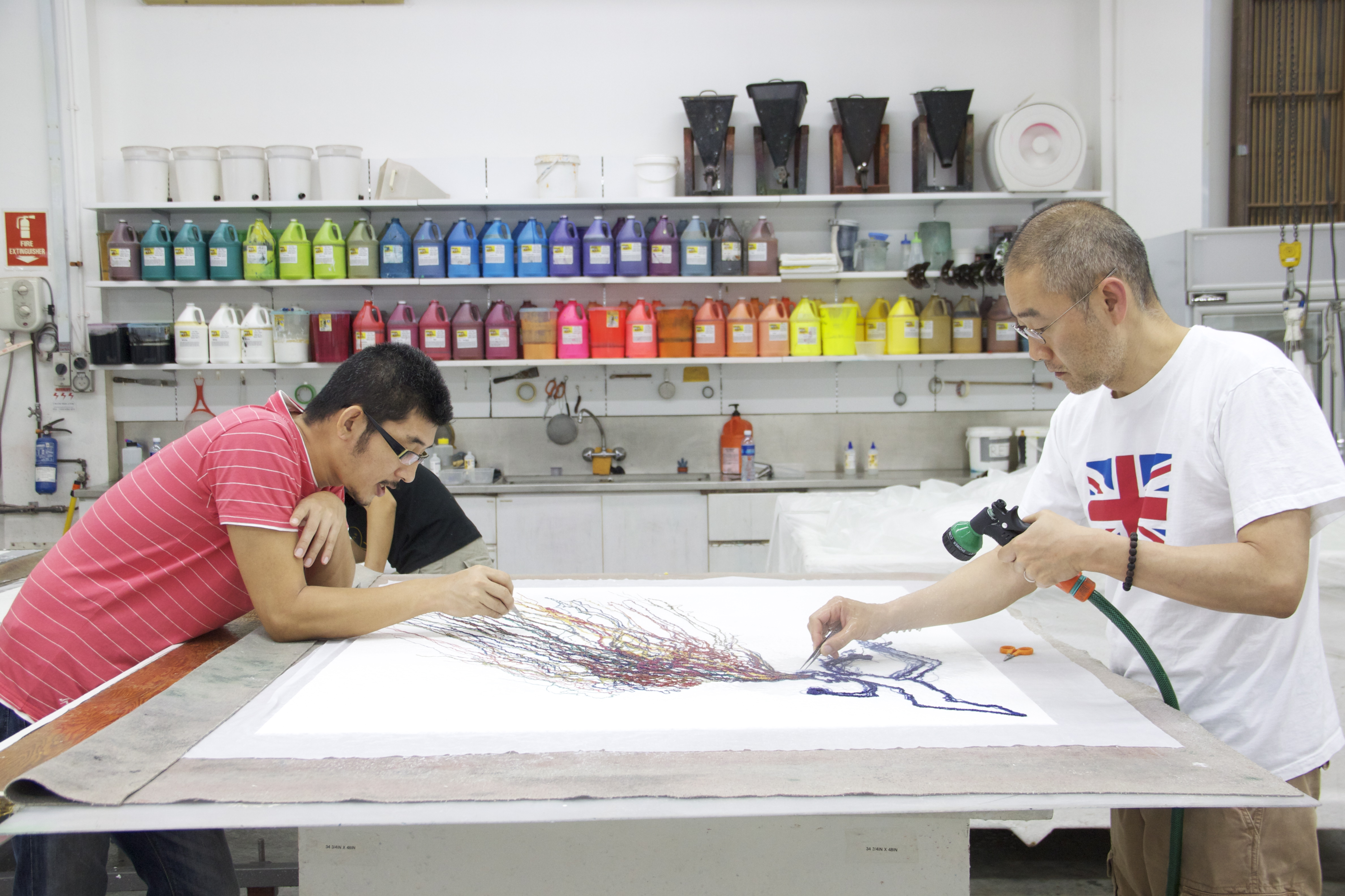 Chief Printer, Eitaro Ogawa (left) working with international artist, Do Ho Suh (right).